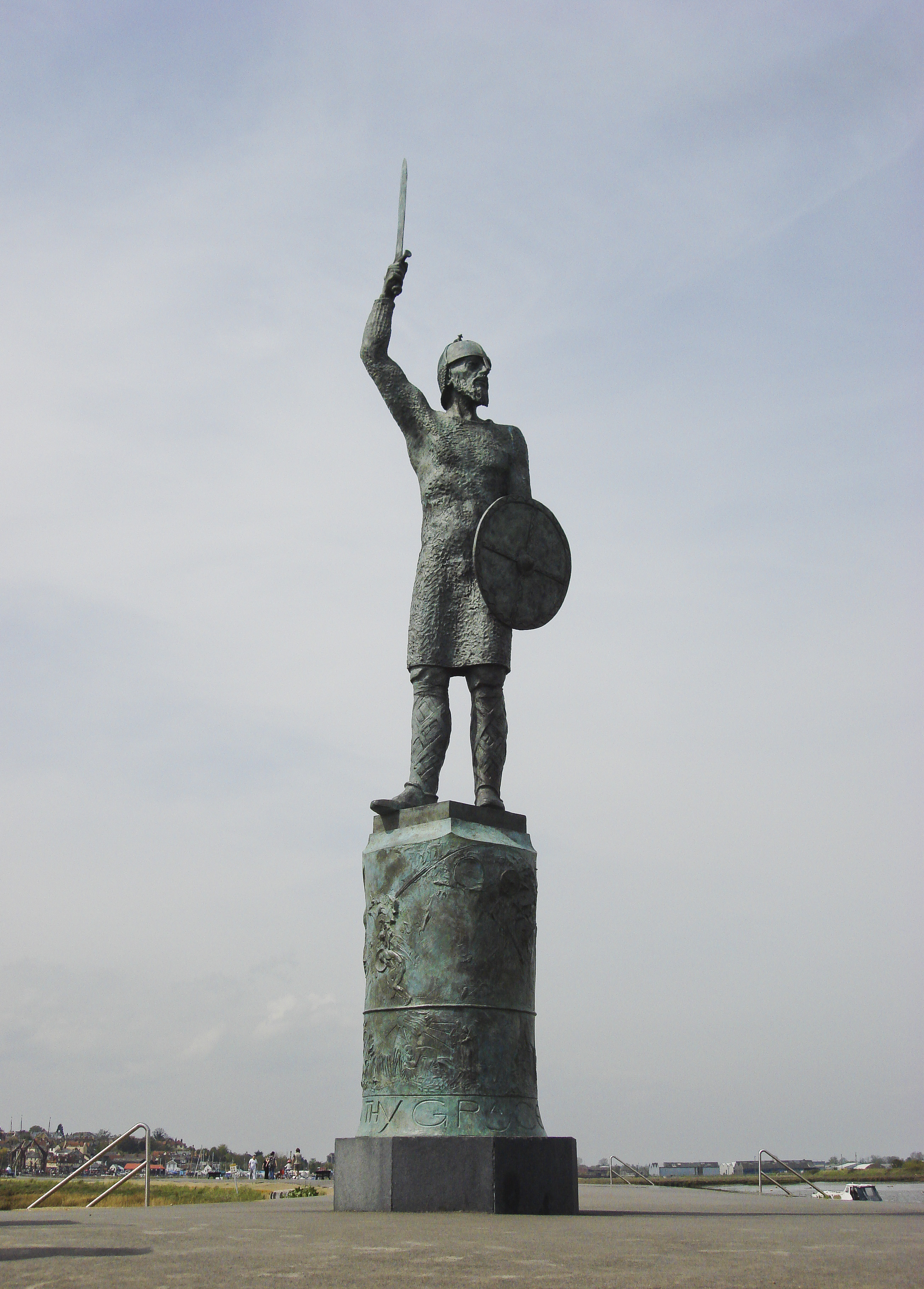 Byrhtnoth statue, Maldon. Byrhtnoth, Earl of Essex. hero and loser of the Battle of Maldon in 991. Byrhtnoth was important because, although he lost the battle, he inspired the Saxons to resist the maurading Danes.The statue is cast in bronze and was created by world famous local artist John Doubleday.